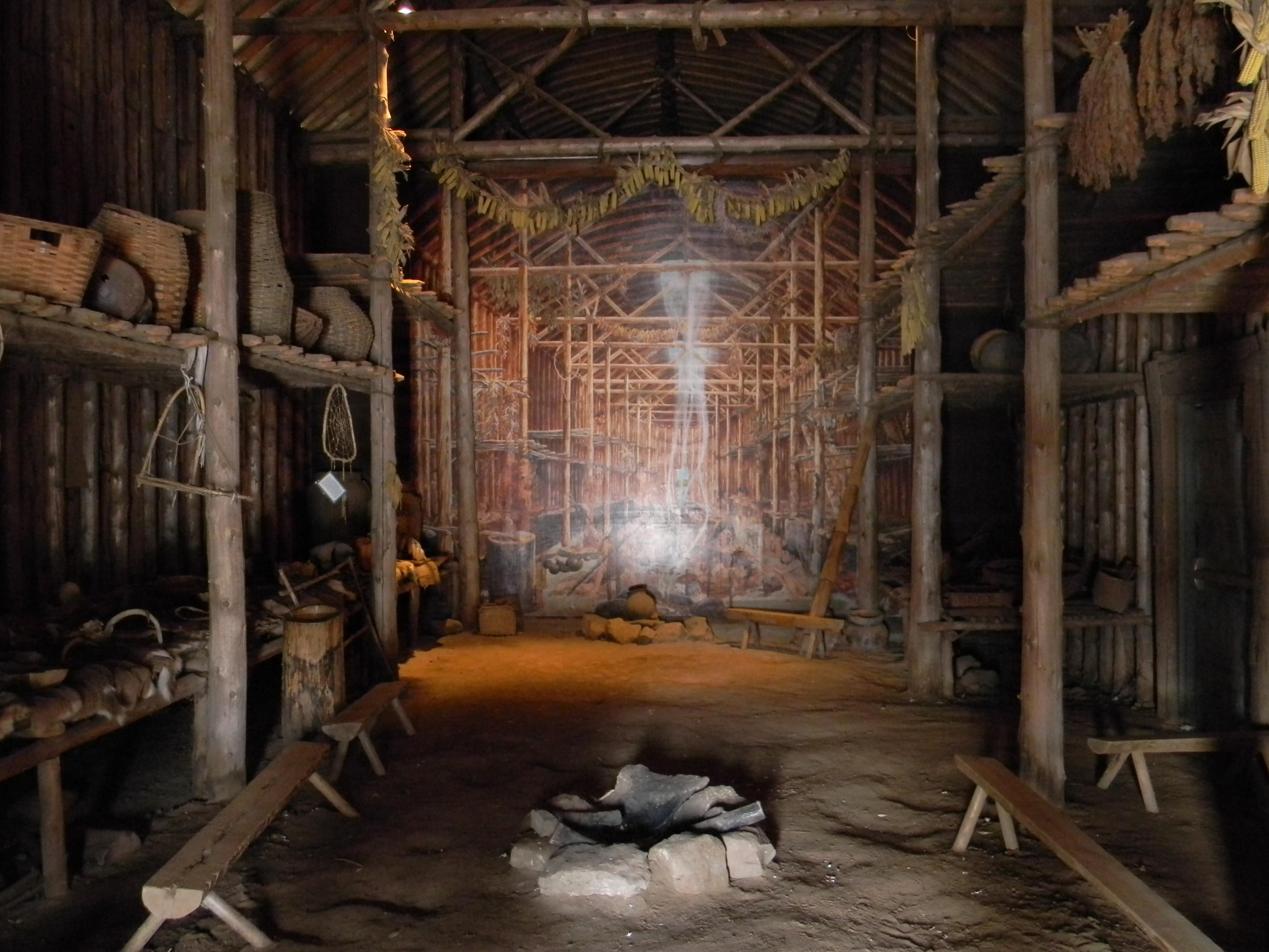 Inside the Longhouse - Iroquoian Village, Ontario, Canada. The 15th century Iroquoian Village was reconstructed on its original site. This village is located along the traditional boundry between the Wendat (Huron) 13th, 14th and 15th centuries and Attiwandaron (Neutral) people 15th, 16th and 17th centuries. As per arheological facts this area was ocupied by ancestors of both of these Nations at various time period.